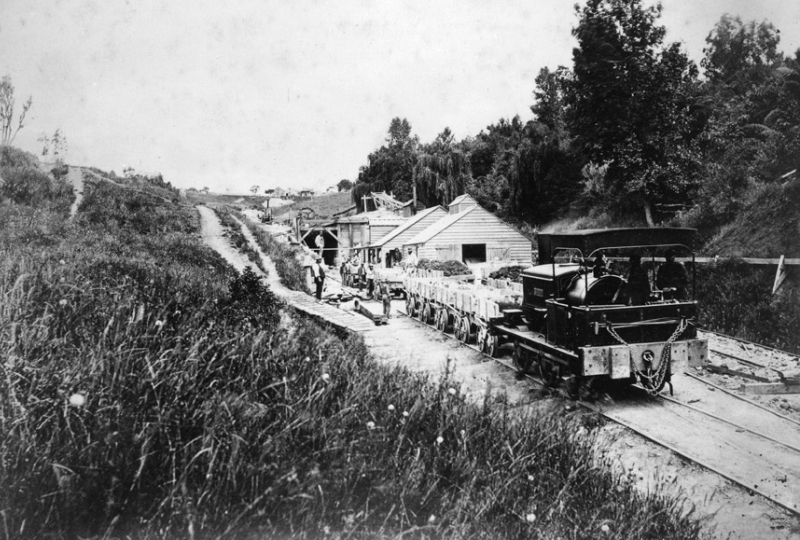 The first Parnell Tunnel being built in Auckland City, New Zealand in approximately 1873. Looking south from near the northern portal. Extended information on origin webpage reads: Photographer: Richardson, James D Date: c1873? Date Period: 1870-1879 Description: Looking south from the northern end of Parnell tunnel, under construction, with engine and trucks in foreground Subjects: Parnell; Tunnels; Railway locomotives; Railways Caption: [Looking south from northern end of Parnell tunnel... 1873?] Condition: Good Related ID's: Class No: 995.1102 P25 (1870-79)